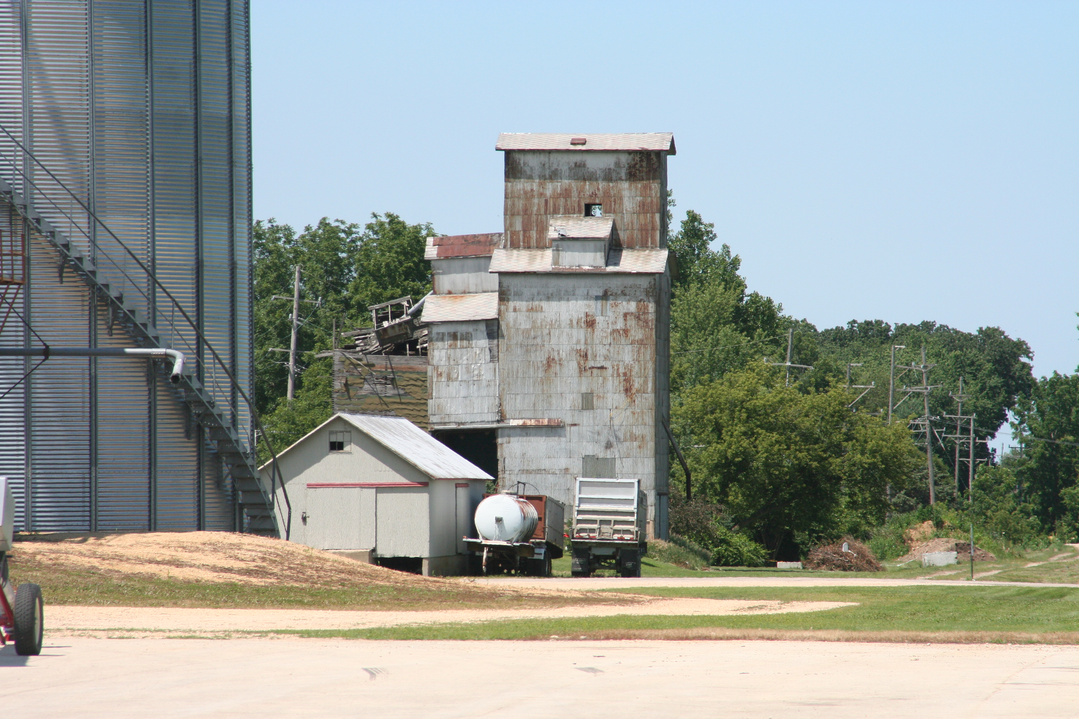 Possibly an old grain elevator in Baileyville, Illinois, USA.